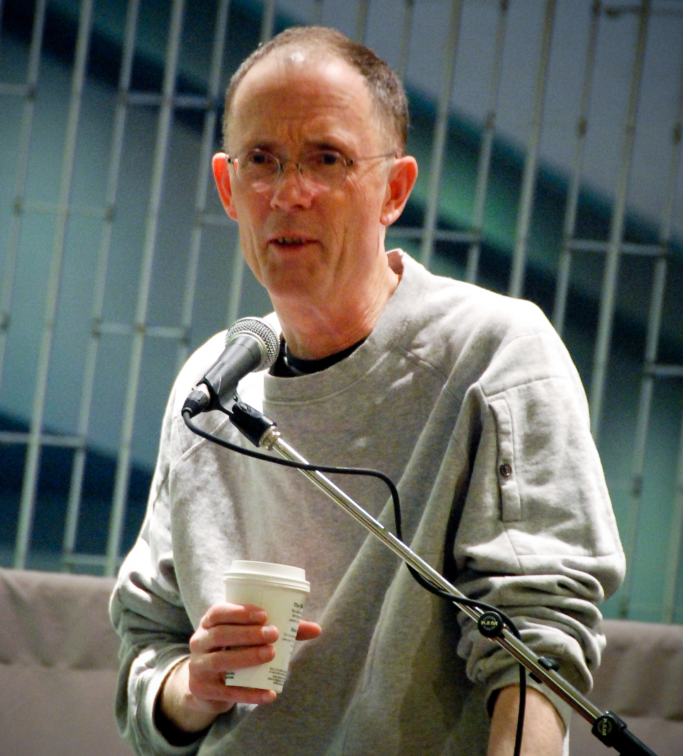 William Gibson reading from his new book Spook Country at Bolen Books in Victoria BC Canada.